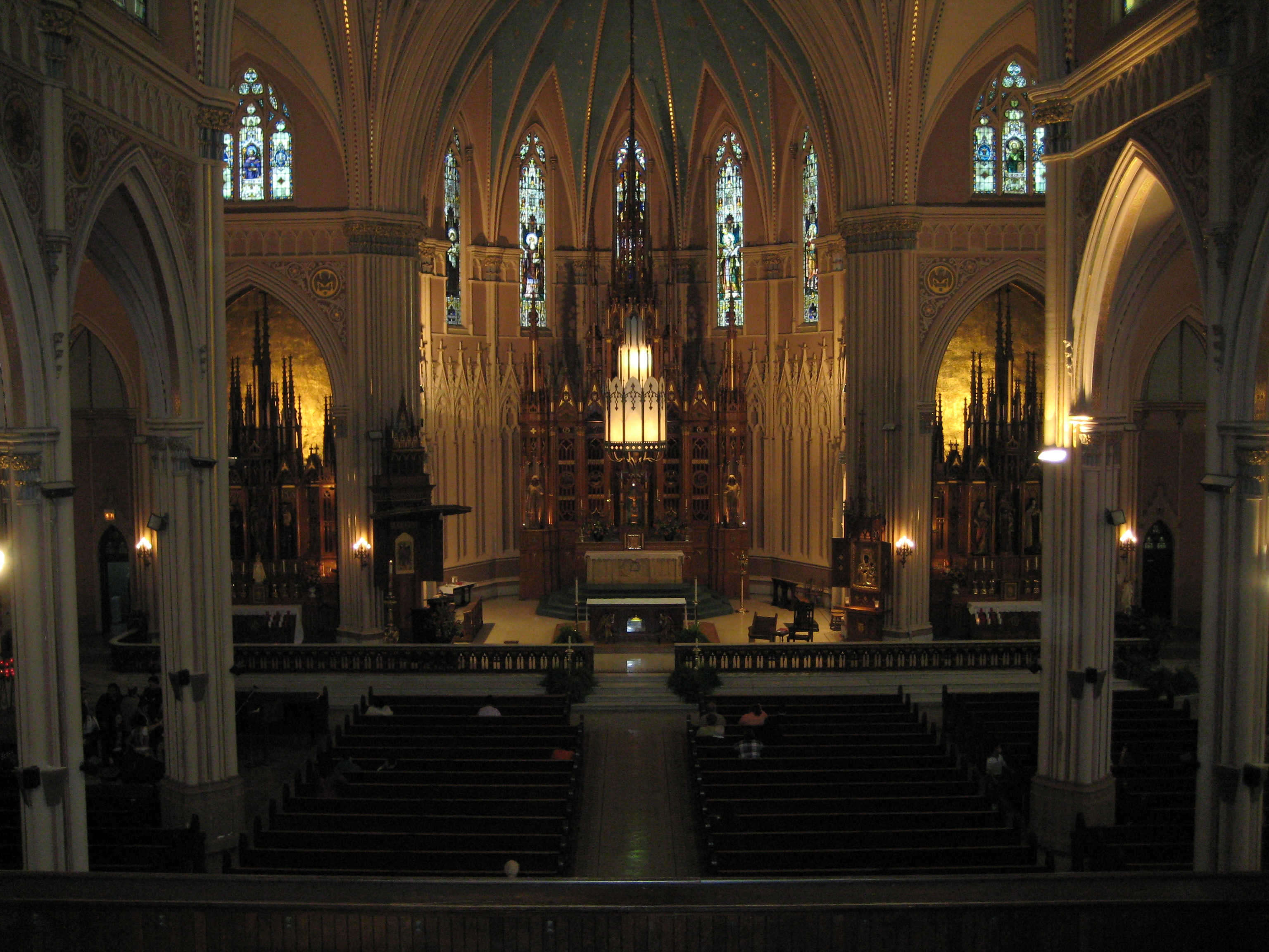 St. Michael the Archangel, on the southside of Chicago.